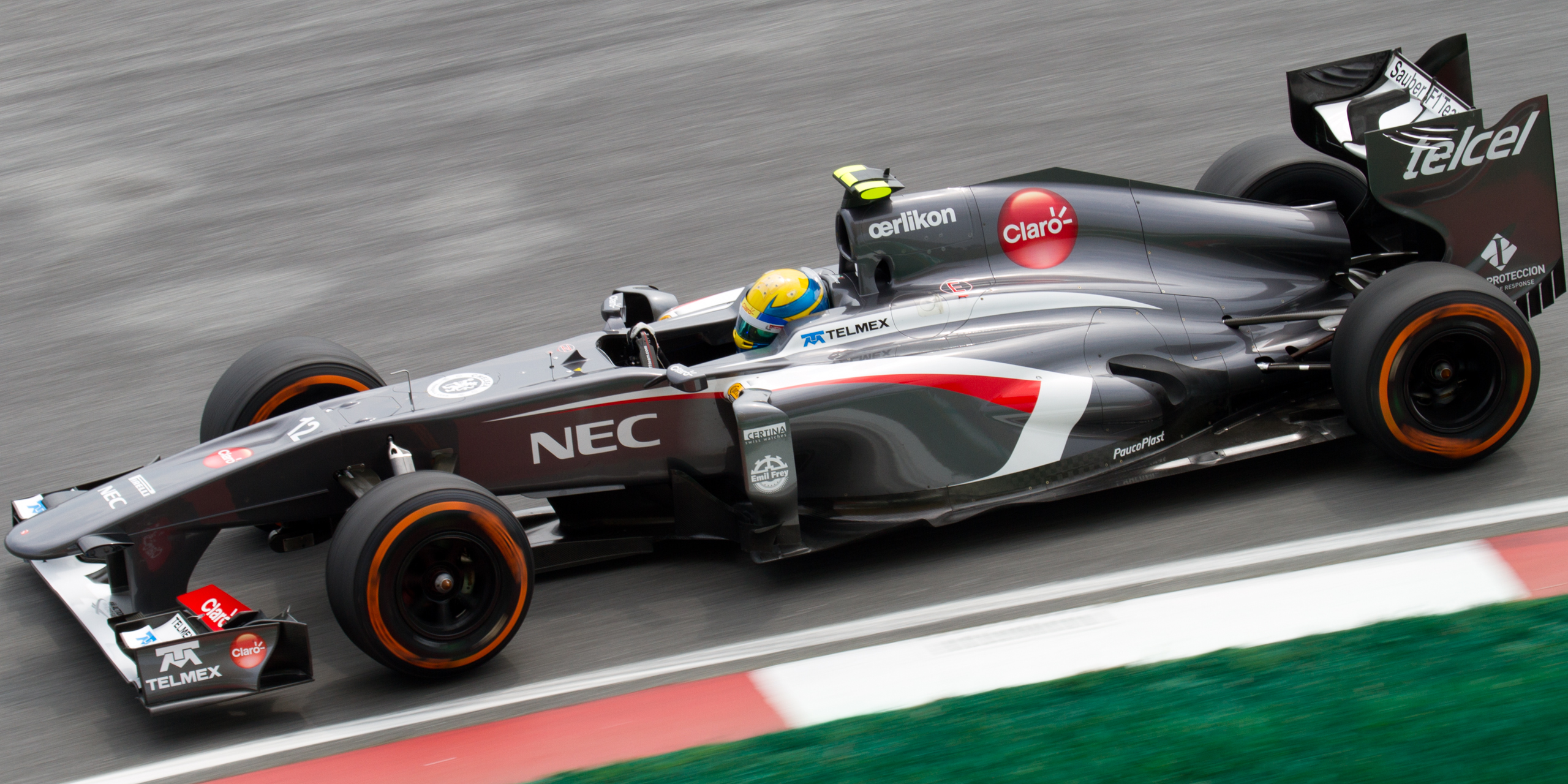 Formula One 2013 Rd.2 Malaysian GP: Esteban Gutiérrez (Sauber) during the first practice session on Friday.